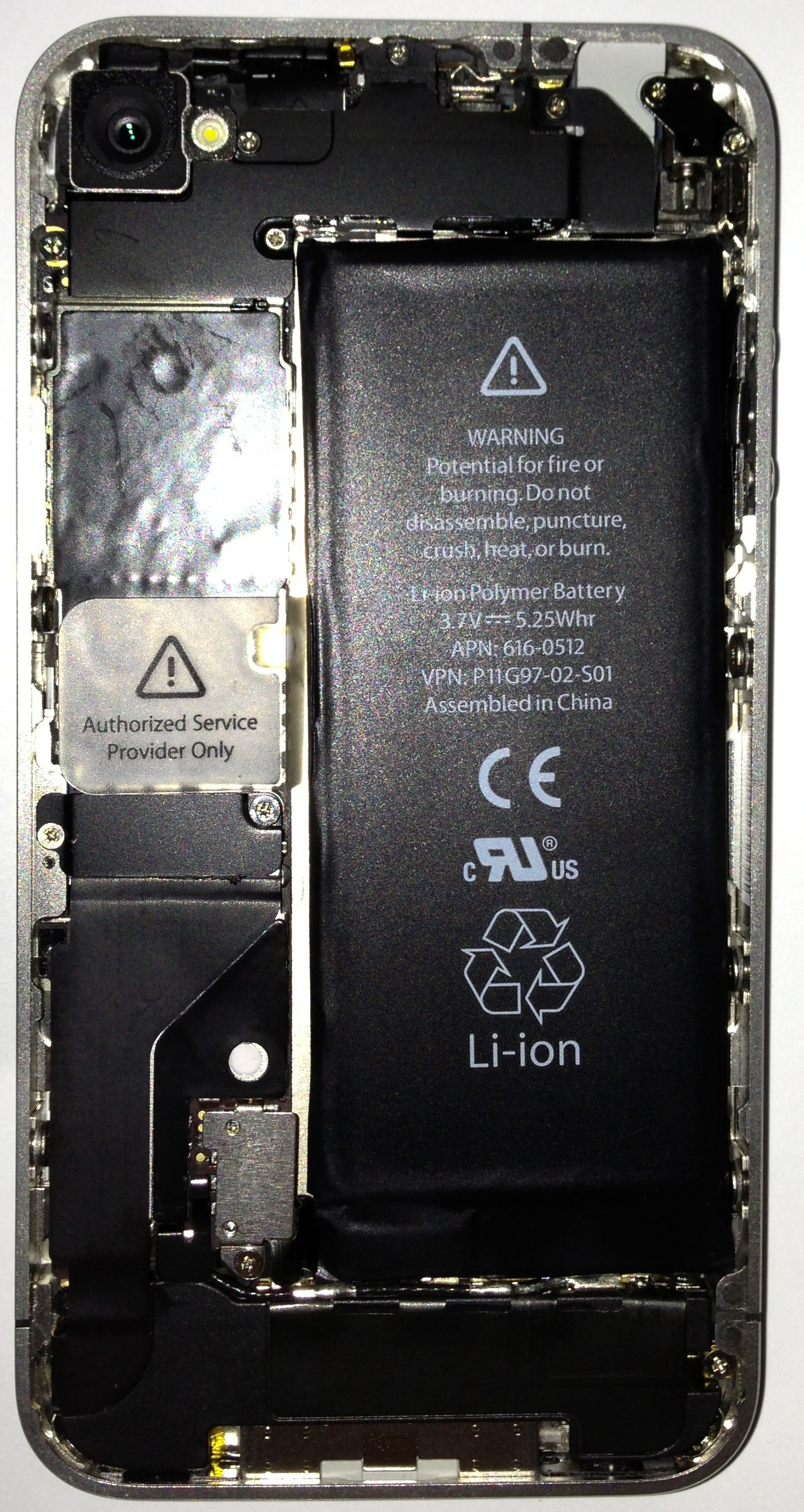 iPhone Structure